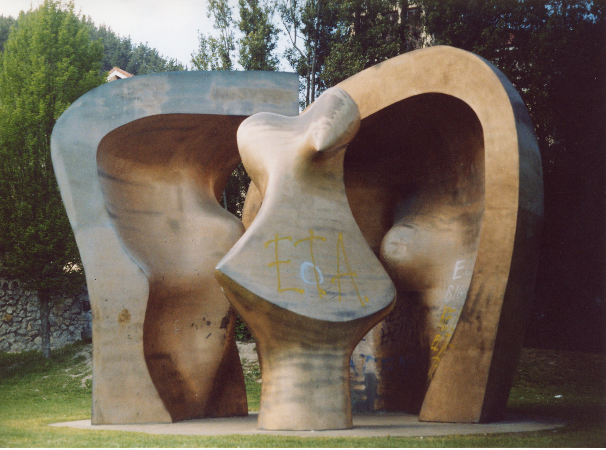 Henry Moore's Large Figure in a Shelter (LH 652c) in Guernica.